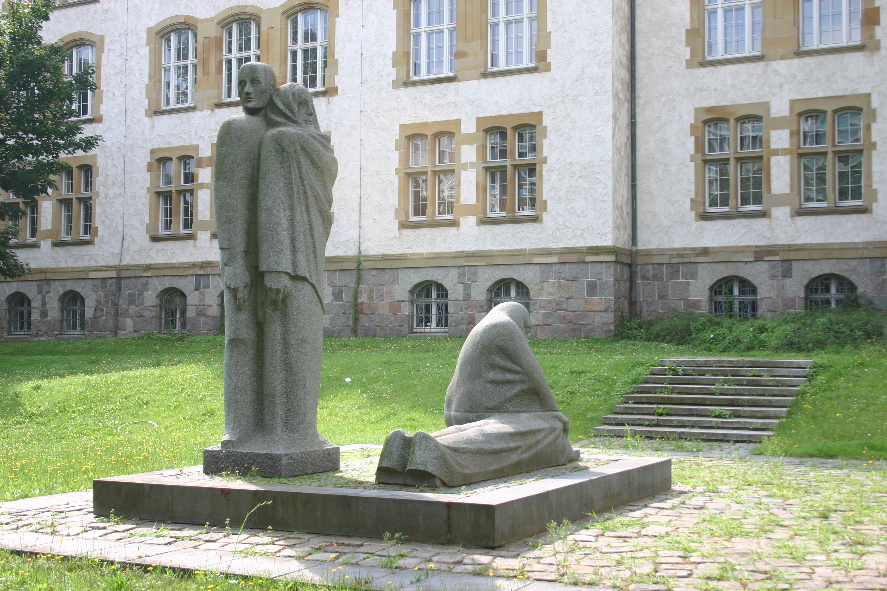 Monument for the victims of fascism, located at the Rosa-Luxemburg-Strasse in Frankfurt/Oder in Germany.